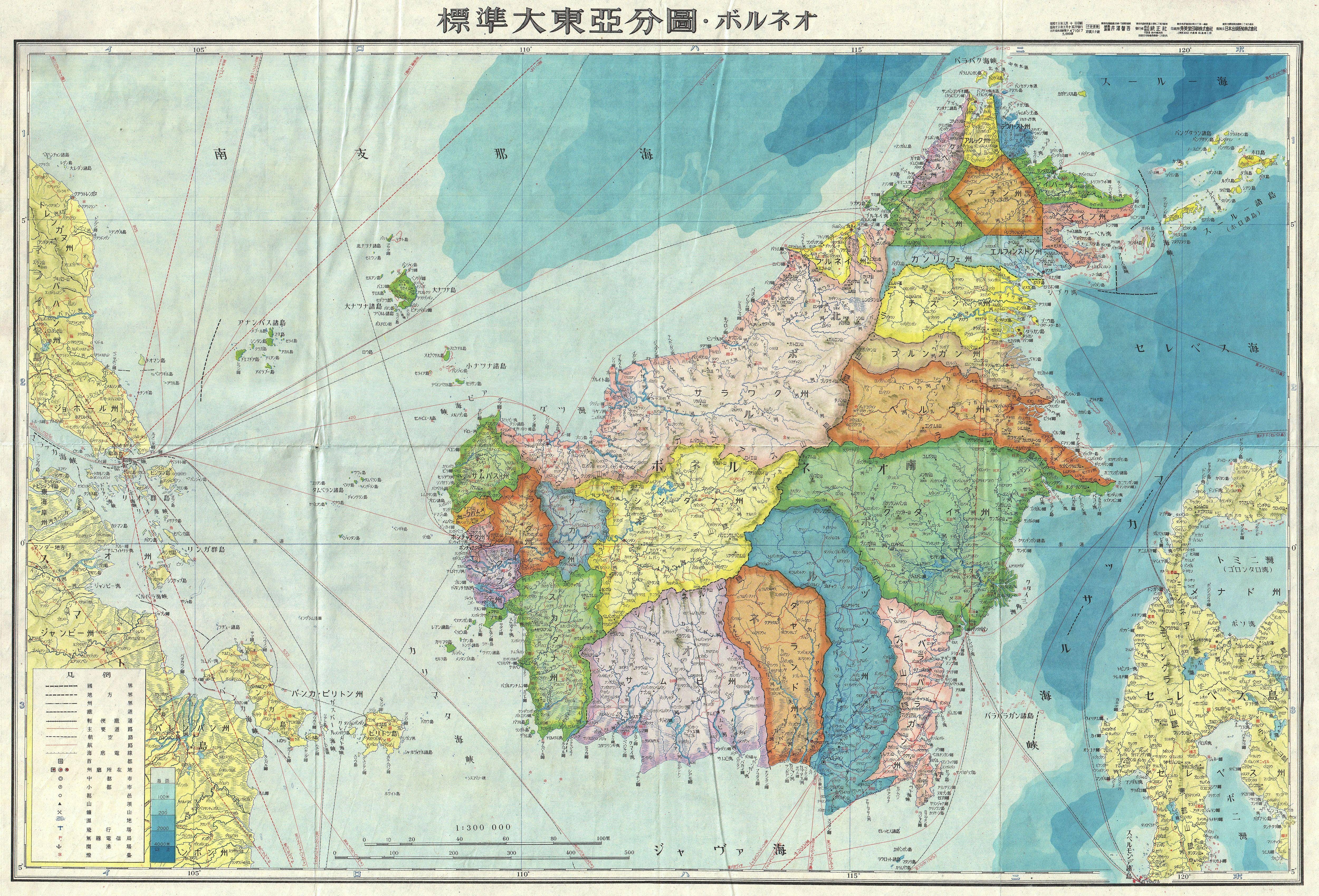 A stunning large format Japanese map of Borneo dating to World War II. Covers the entirety of the island with color coding according to district. Offers superb detail regarding both topographical and political elements. Notes cities, roads, trade routes on air, sea and land, and uses shading to display oceanic depths. All text in Japanese. While Allied World War II maps of this region are fairly common it is extremely rare to come across their Japanese counterparts. This map was created as map no. 12 of a 20 map series detailing of parts of Asia and the Pacific prepared by the Japanese during World War II.